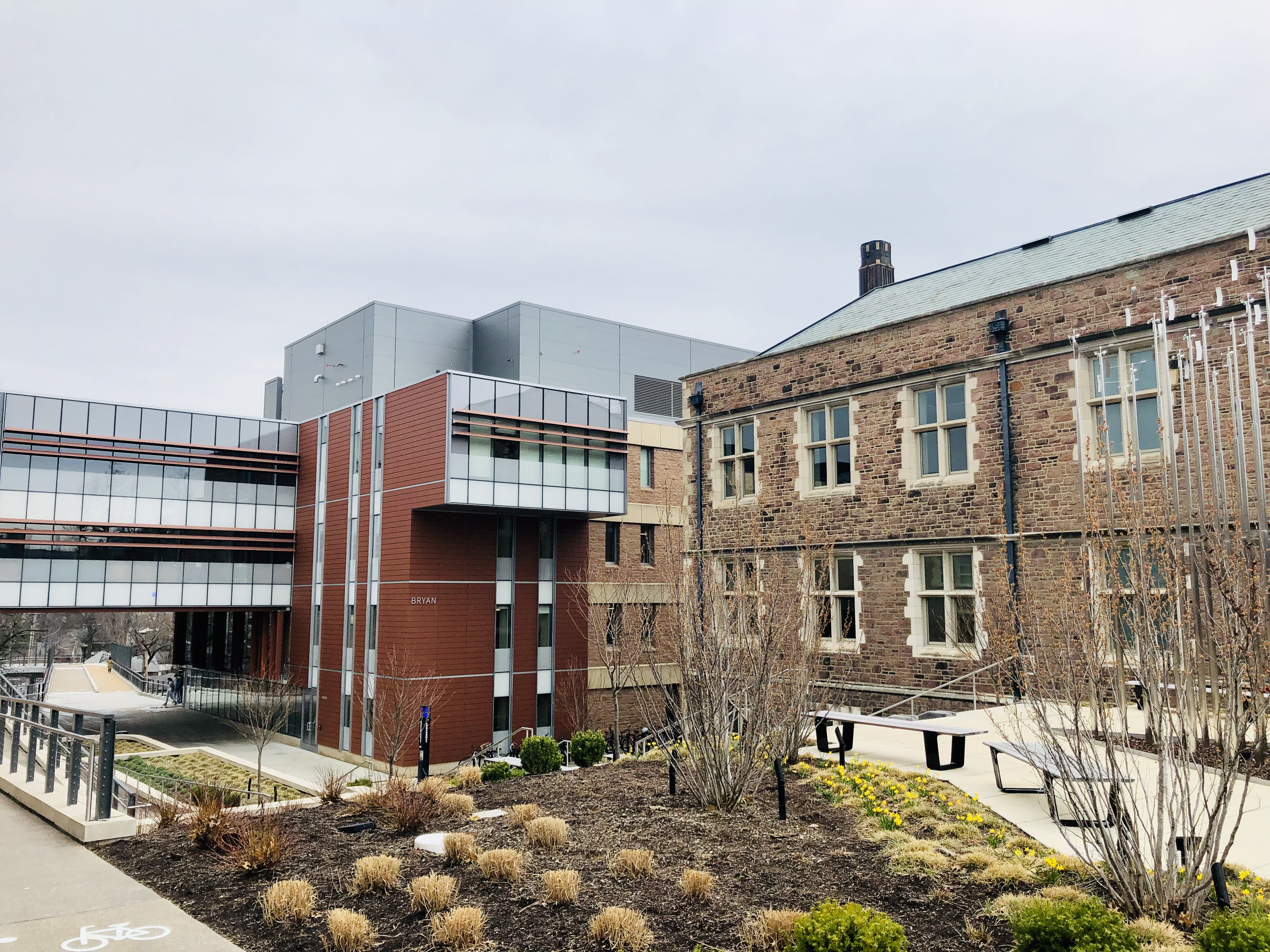 WashU Bryan Hall